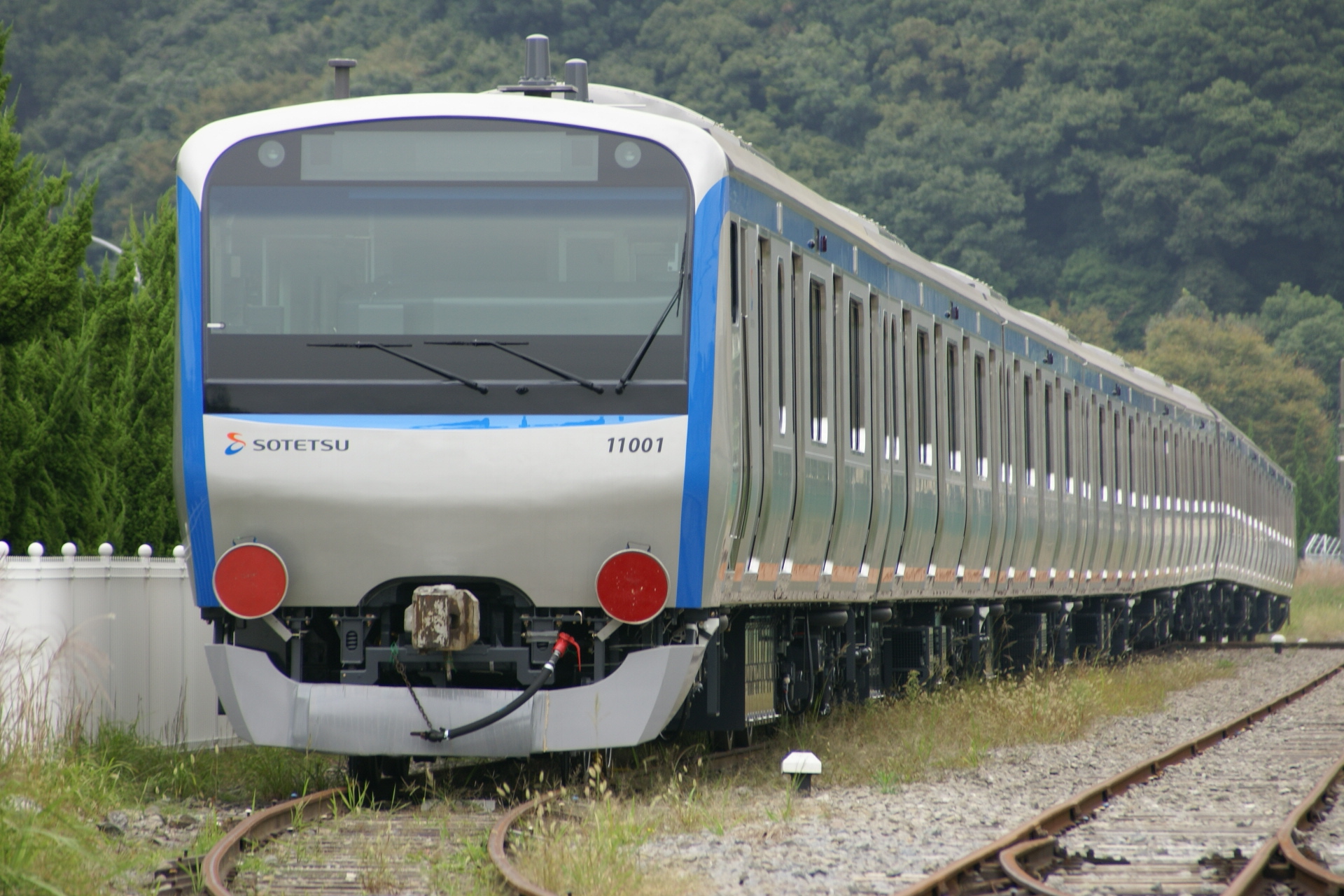 The first Sotetsu (Sagami Railway) 11000 series 10-car EMU parked near Jimmuji Station following delivery from Tokyu Car